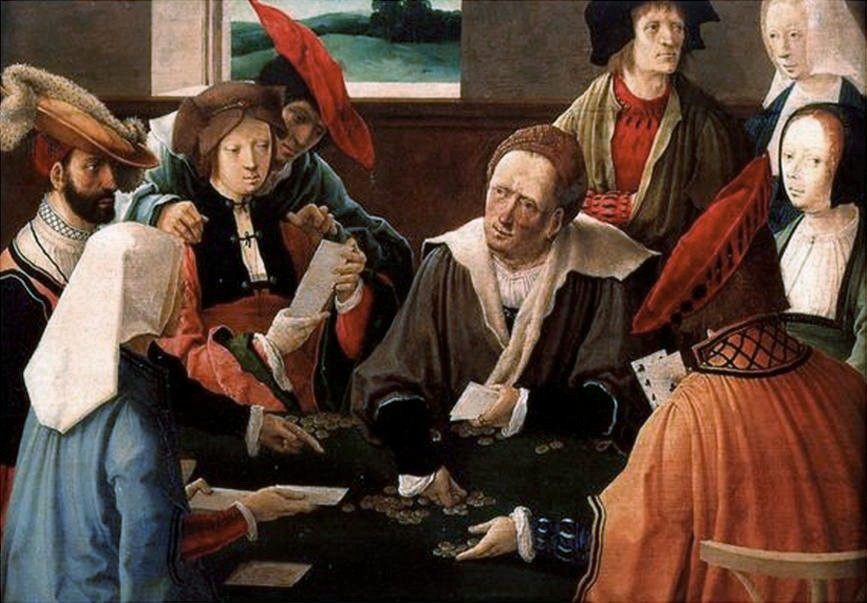 The Card Players by Lucas van Leyden. Oil on Canvas, 1520. Wilton House, Salisbury Garden Centre, United Kingdom.